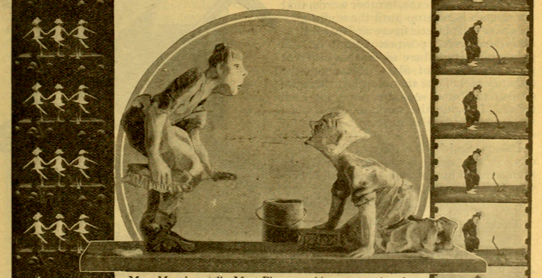 Stills from Battle of the Suds and other clay animations by pioneer Helena Smith-Dayton, published in Popular Science Monthly February 1917